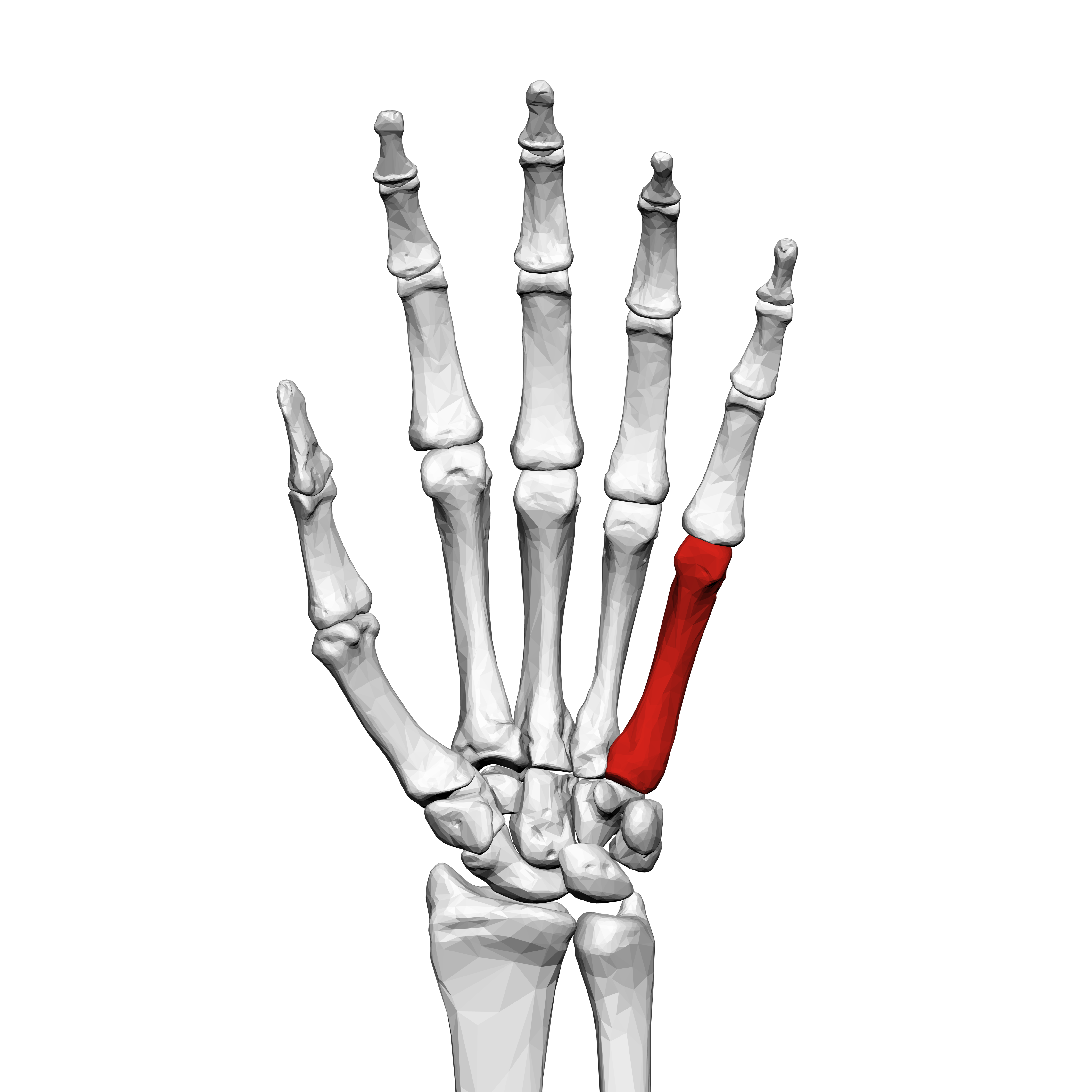 First metacarpal bone (shown in red).